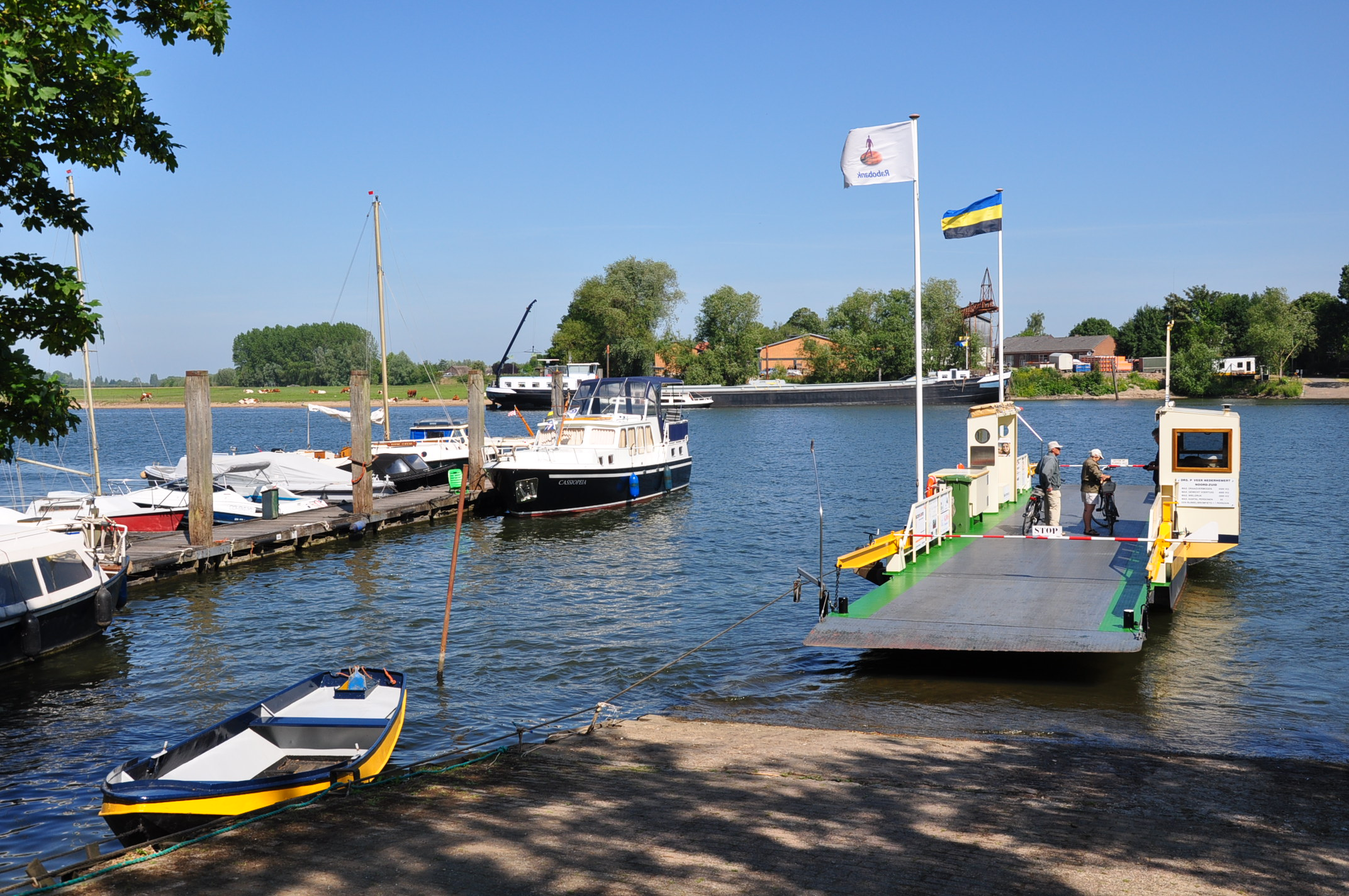 The ferry across the river Meuse between Nederhemert-north and Nederhemert-south, Province of Gelderland, Netherlands. View is towards the northern shore.